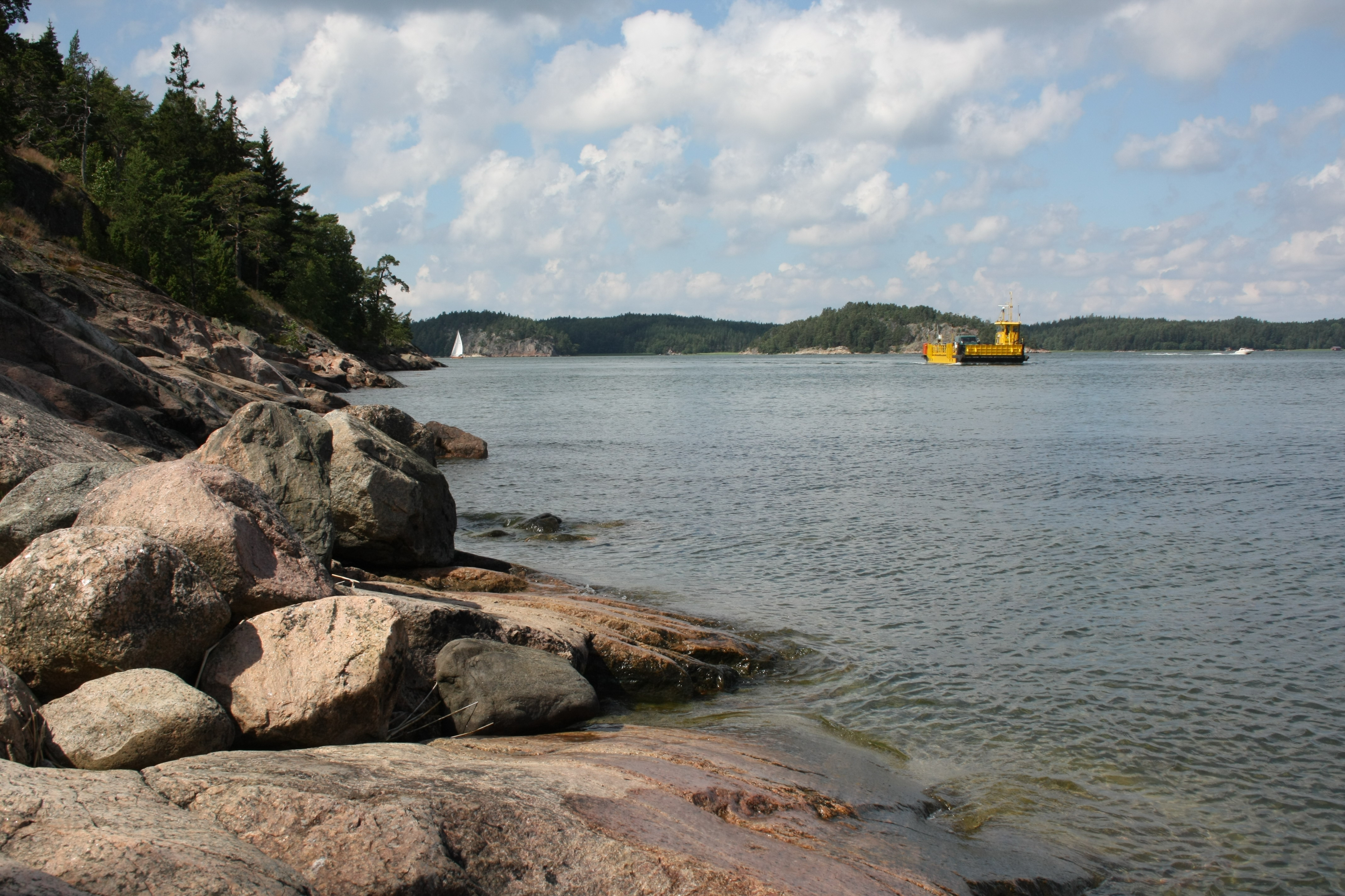 Nagu (Finand), Archipelago trail; near ferry terminal Nagu to Pargas, ferry leaving for island of Haverö in the picture.